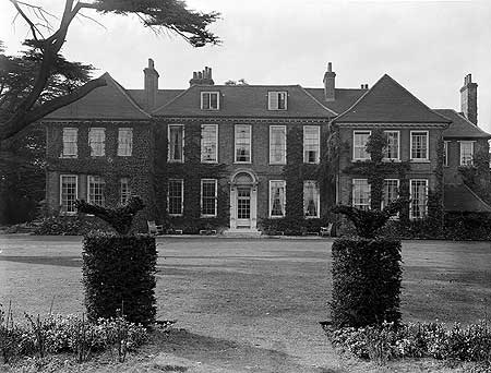 Black and white photograph of the Manor House, Ham Street, Richmond, first published in "A History of English Brickwork" (1934)